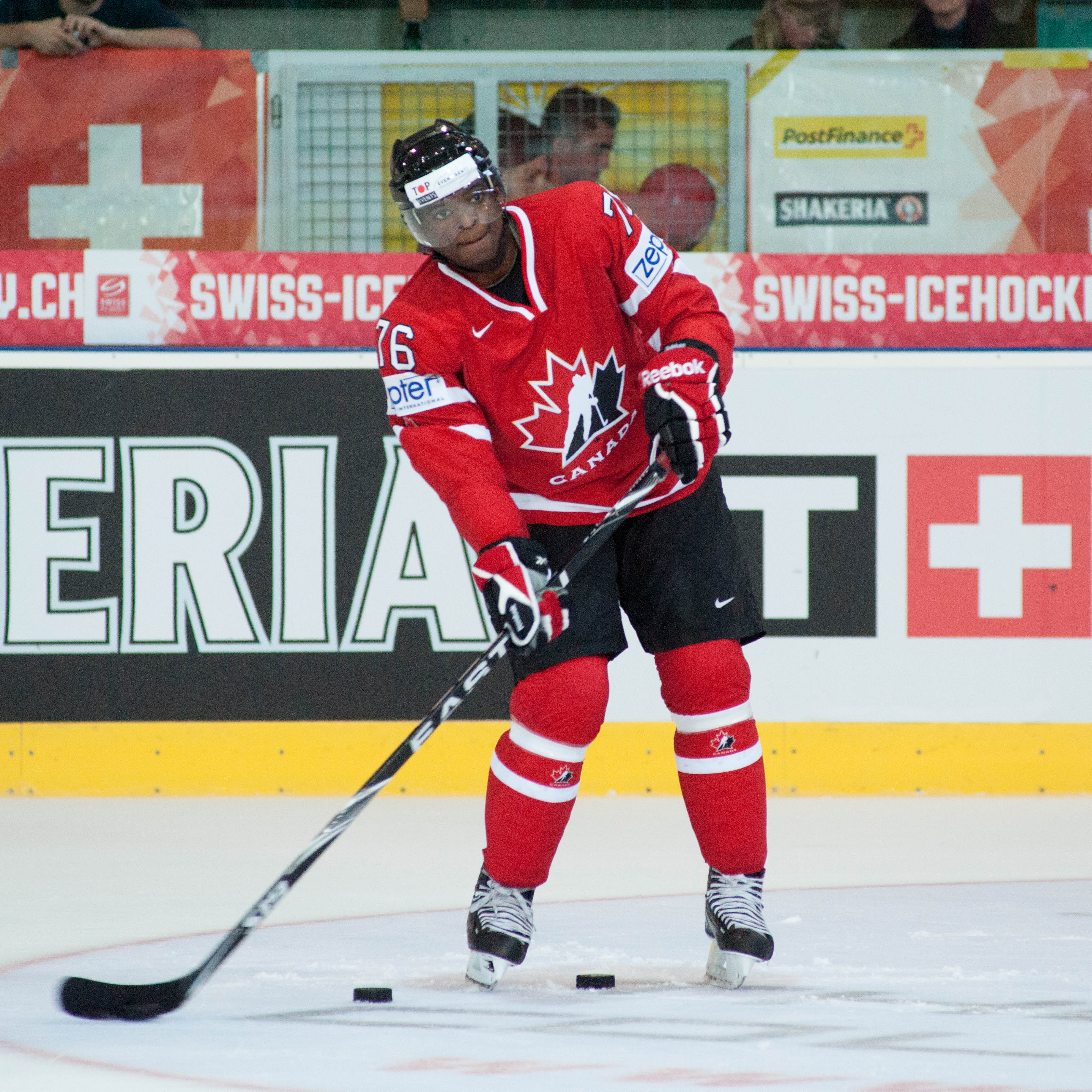 Switzerland vs. Canada, 29th April 2012